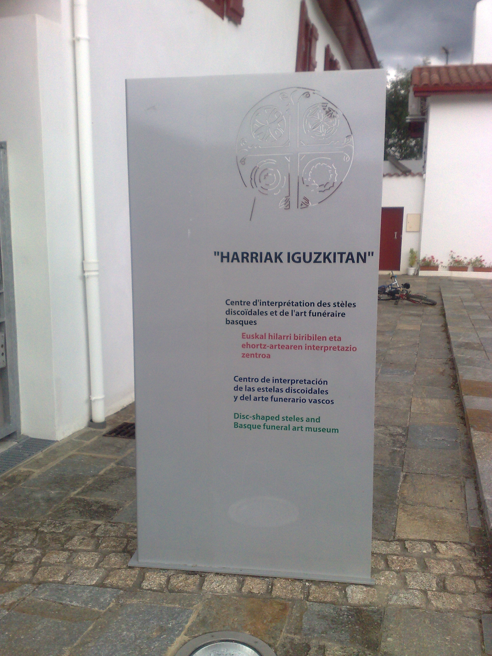 Harriak iguzkitan disc-shaped steles and Basque funeral art museum, Larzabale (fr Larceveau), Lower Navarre, Basque Country.